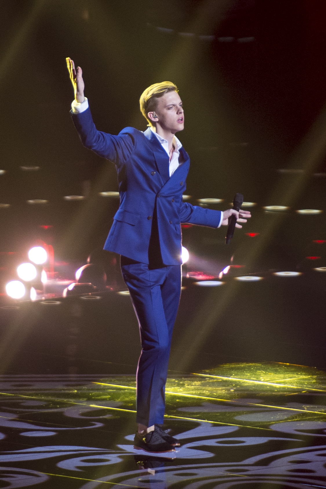 Jüri Pootsmann representing Estonia with the song "Play" during a rehearsal before the first semi final of the Eurovision Song Contest 2016 in Stockholm. (Help translate this text)